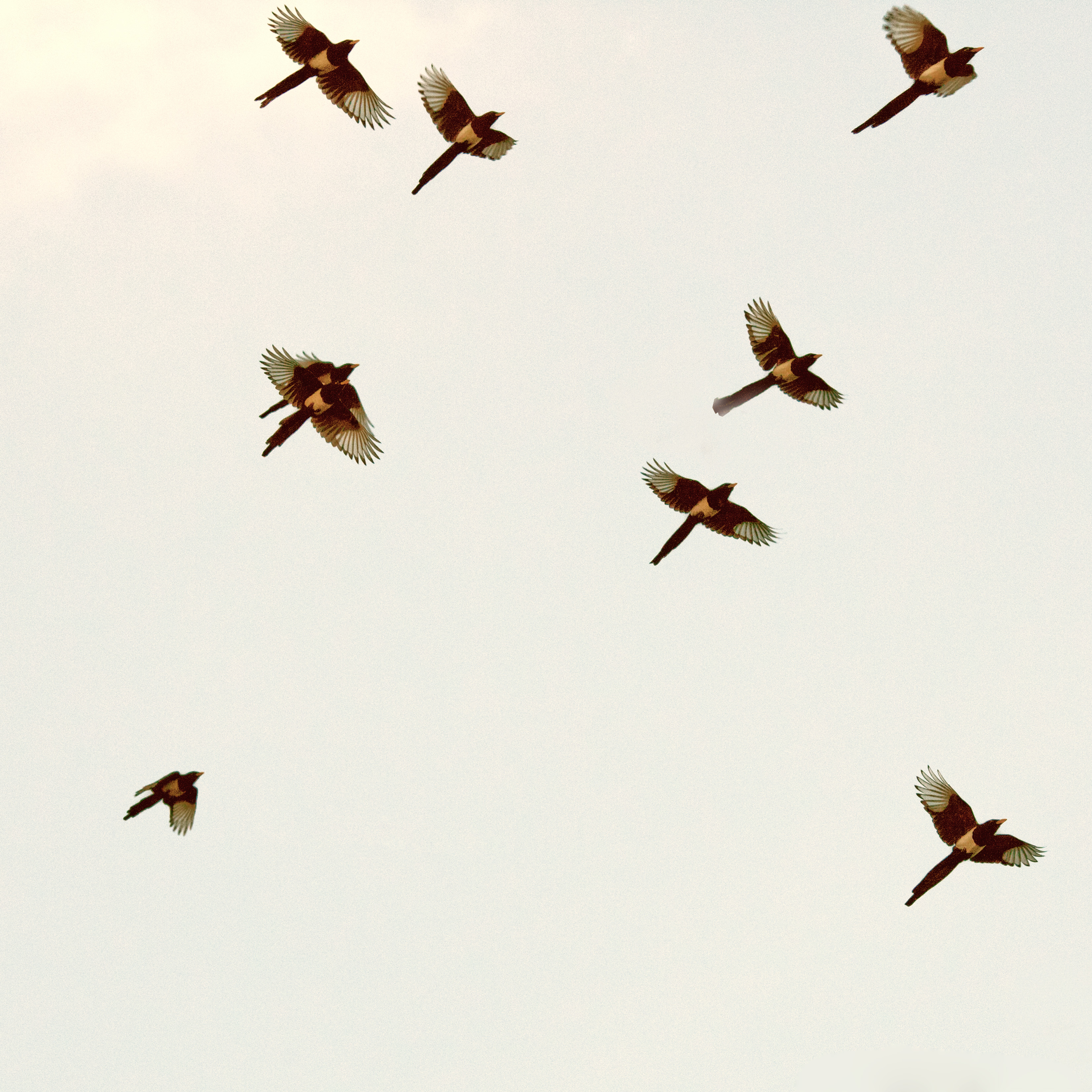 A flock of Yellow-billed Magpies (Pica nuttalli) in Sacramento, United States.